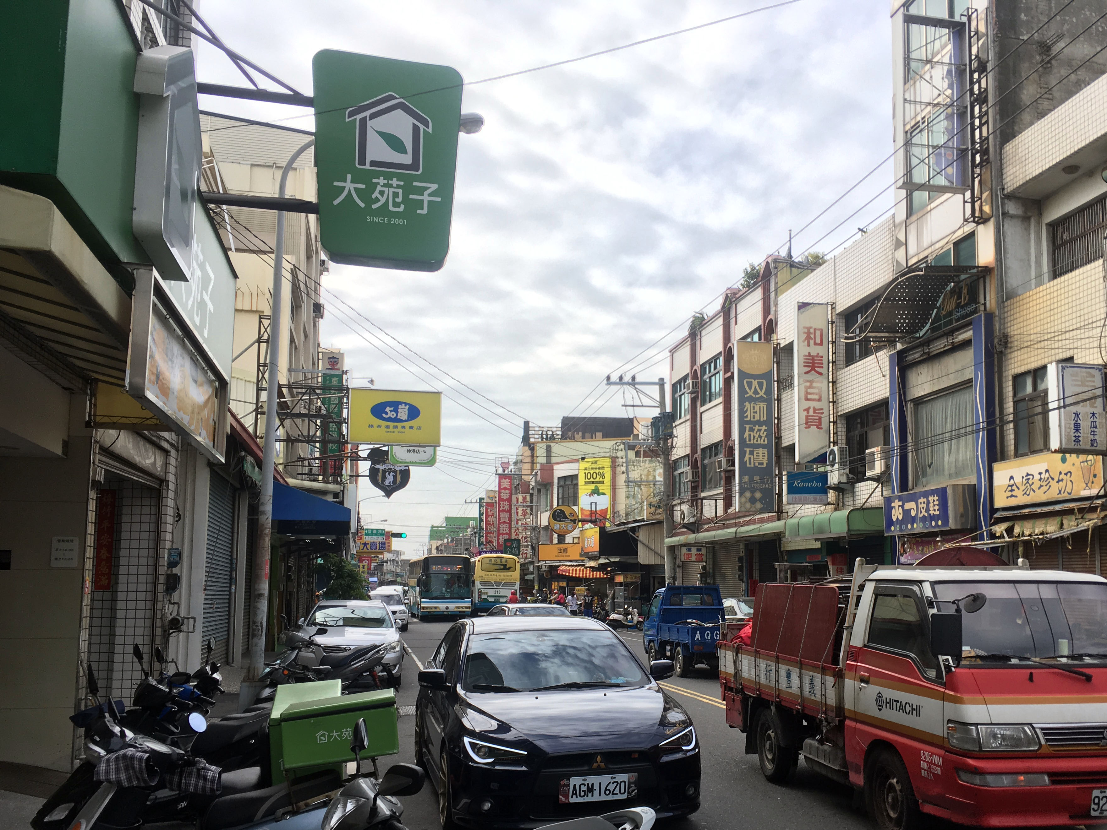 Zhongshan Rd., Shengang Township